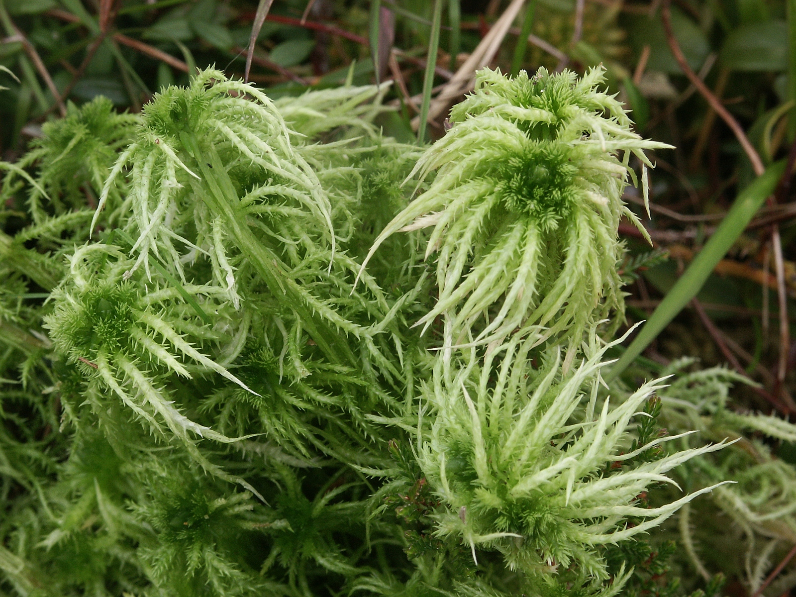 Sphagnum squarrosum, Hohenlohe, Germany